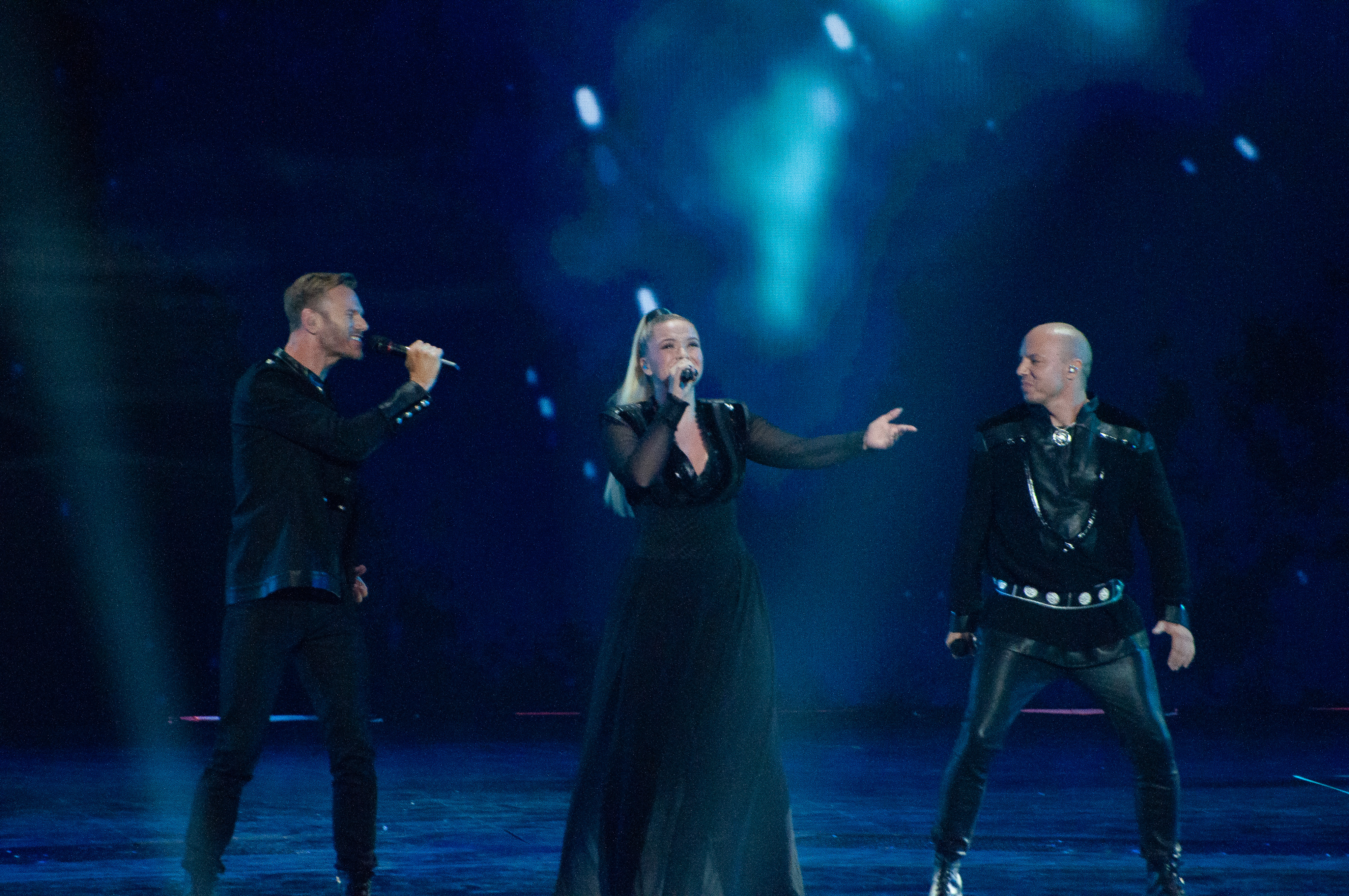 At the 2019 Eurovision Song Contest Semi-final 2 dress rehearsal